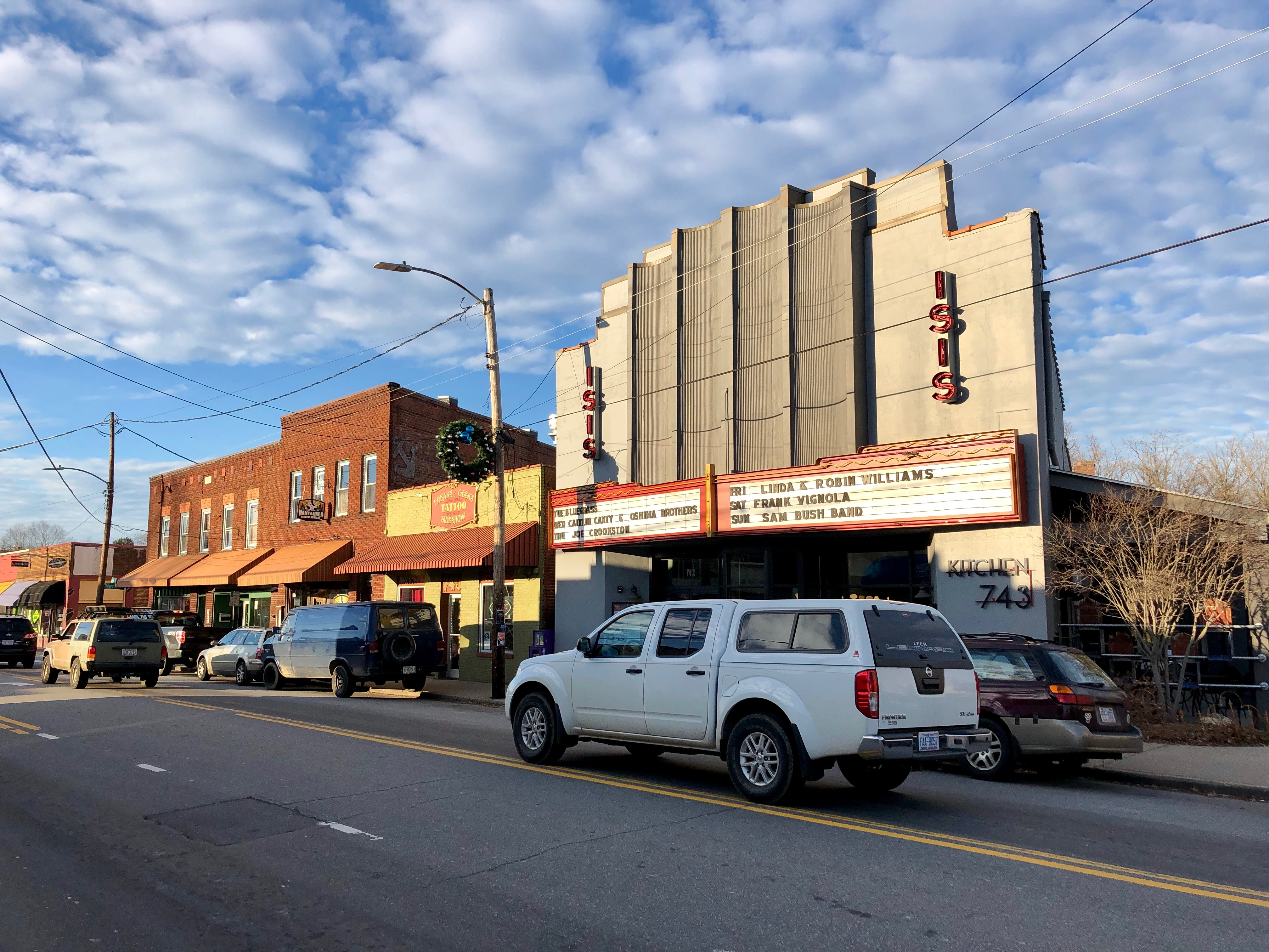 This is the ISIS Theater (1937), and several adjoining early 20th Century commercial buildings on Haywood Road in West Asheville, a neighborhood in Asheville, North Carolina. These buildings are contributing structures in the West Asheville End of Car Line Historic District, listed on the National Register of Historic Places in 2006.